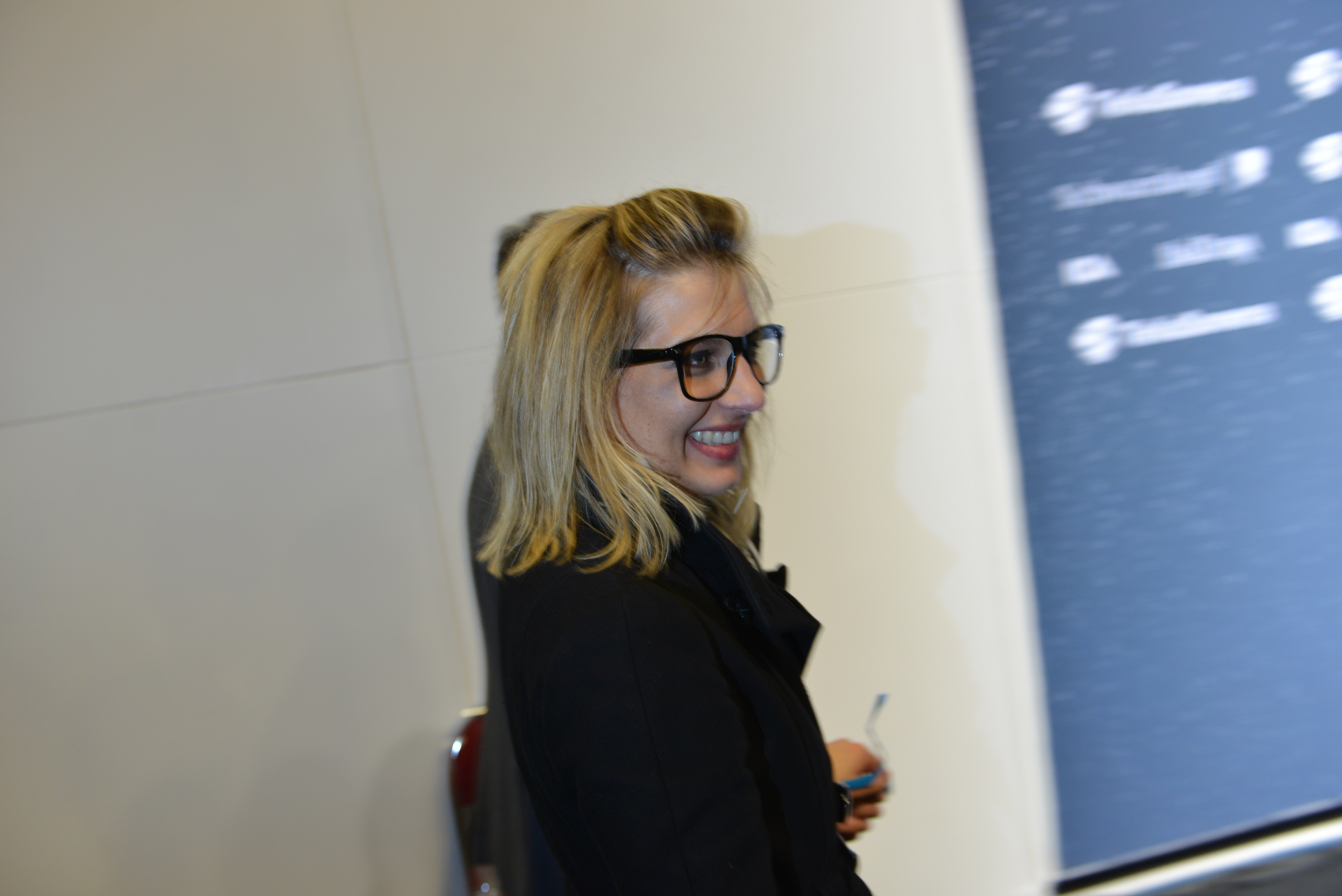 Amandine Bourgeois at a press conference during the Eurovision Song Contest 2013 in Malmö. (Help translate this text)